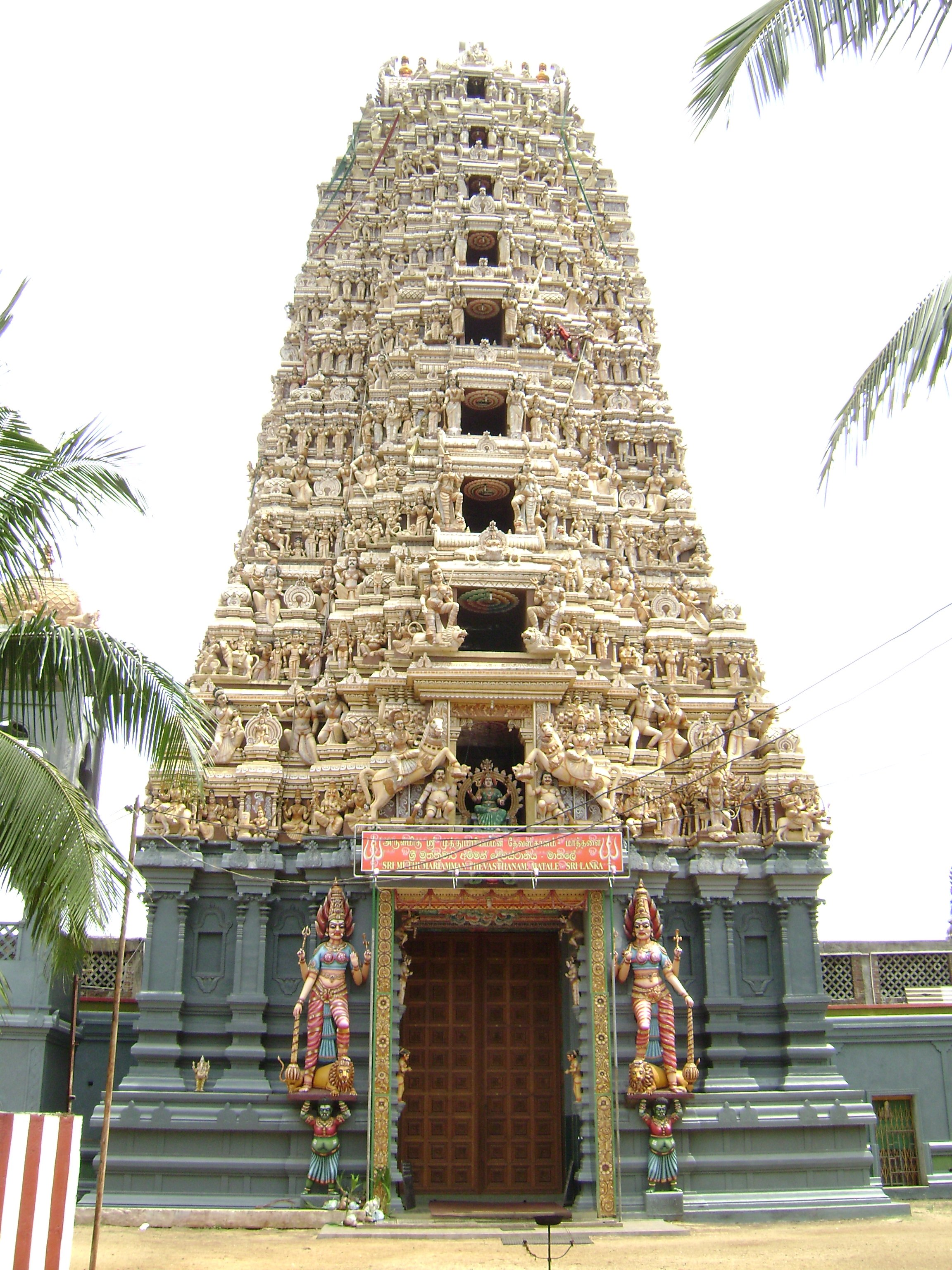 This is the 108 tower(Aka Kopuram) of Sacred Matale Sri Muttumariyamman kovil